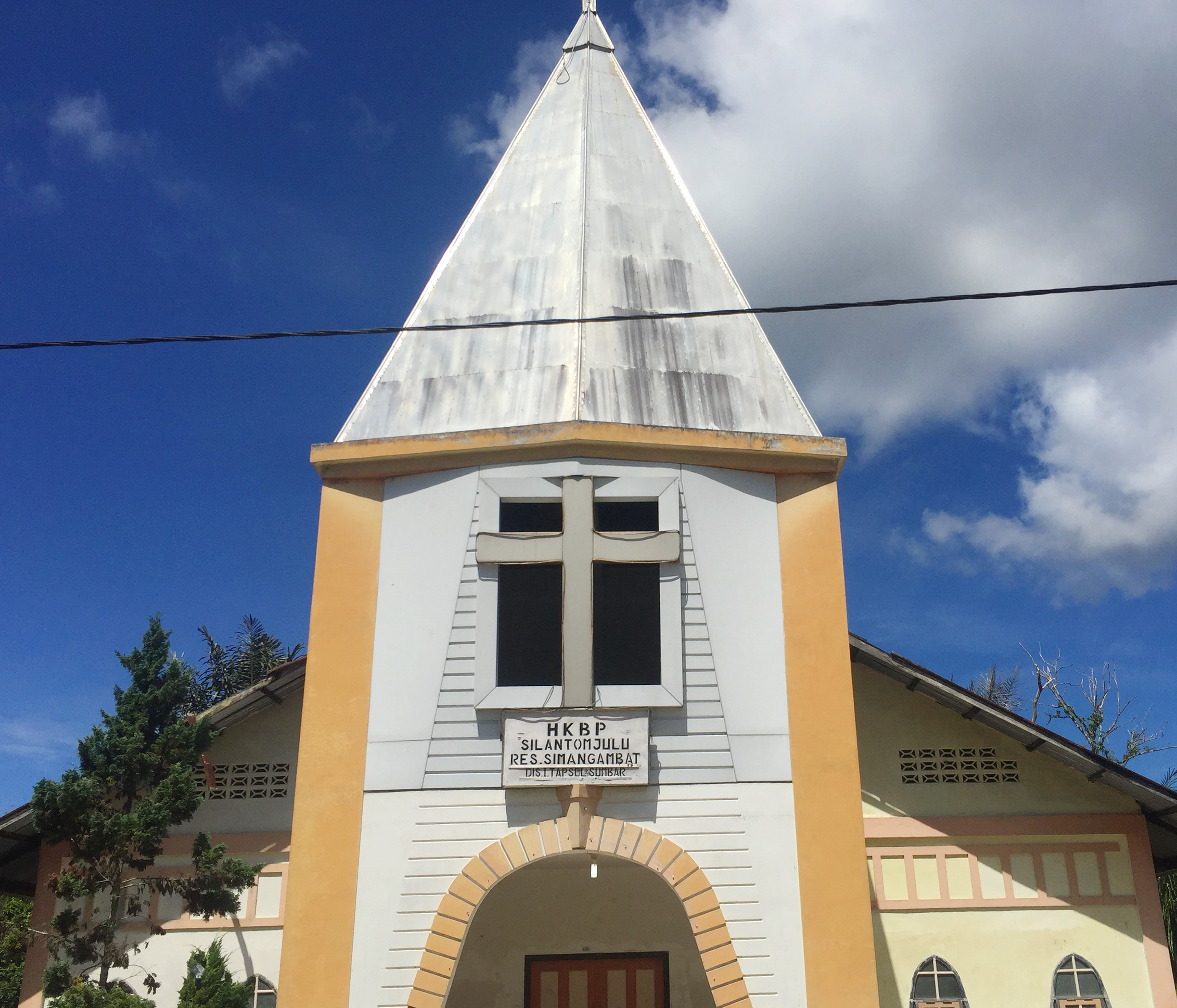 HKBP Silantom Julu, Church in Silantom Julu, Pangaribuan, Tapanuli Utara.